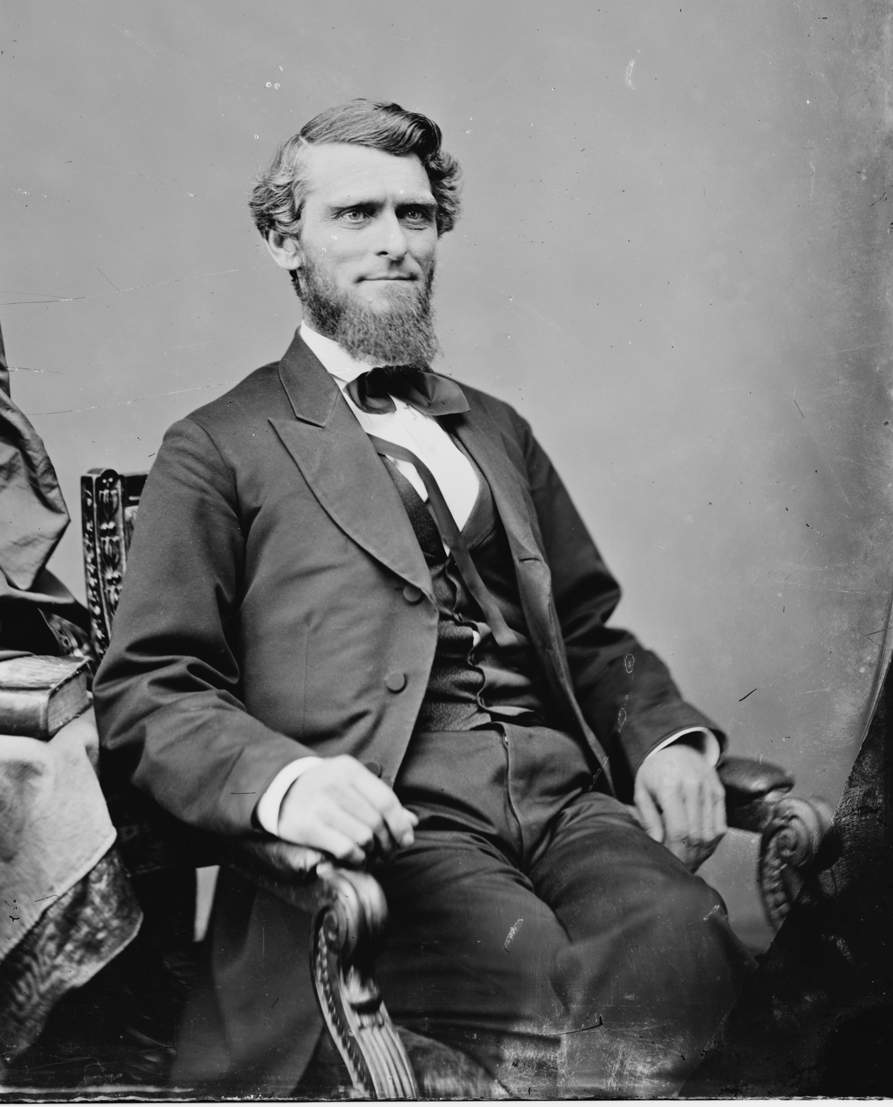 Arthur I. Boreman. Library of Congress description: "Hon. Arthur Ingrham Boreman"